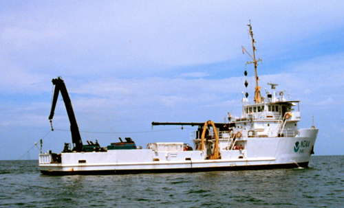 The National Oceanic and Atmospheric Administration survey ship NOAAS Ferrel (S 492) in the Dry Tortugas area of Florida